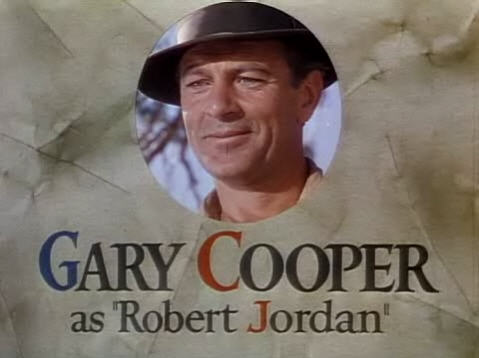 US actor Gary Cooper in For Whom the Bell Tolls - trailer (screenshot)